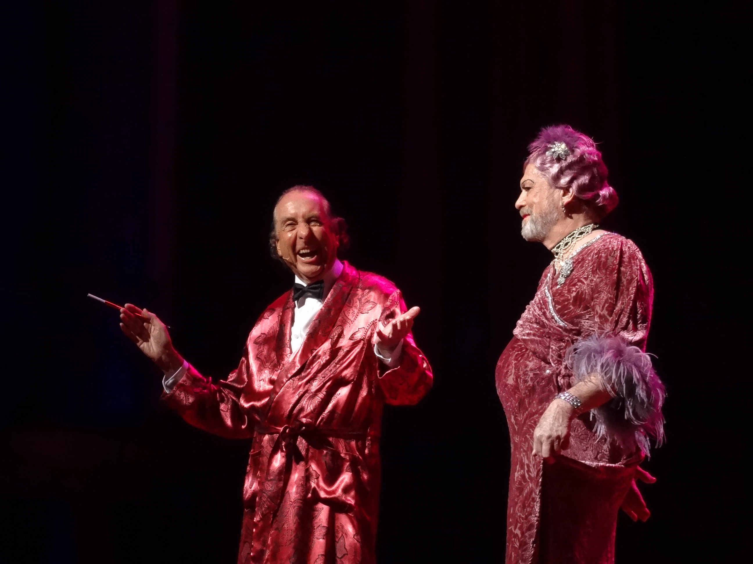 Terry Gilliam and Eric Idle performing the "Penis Song" during the Monty Python Live (Mostly) show.